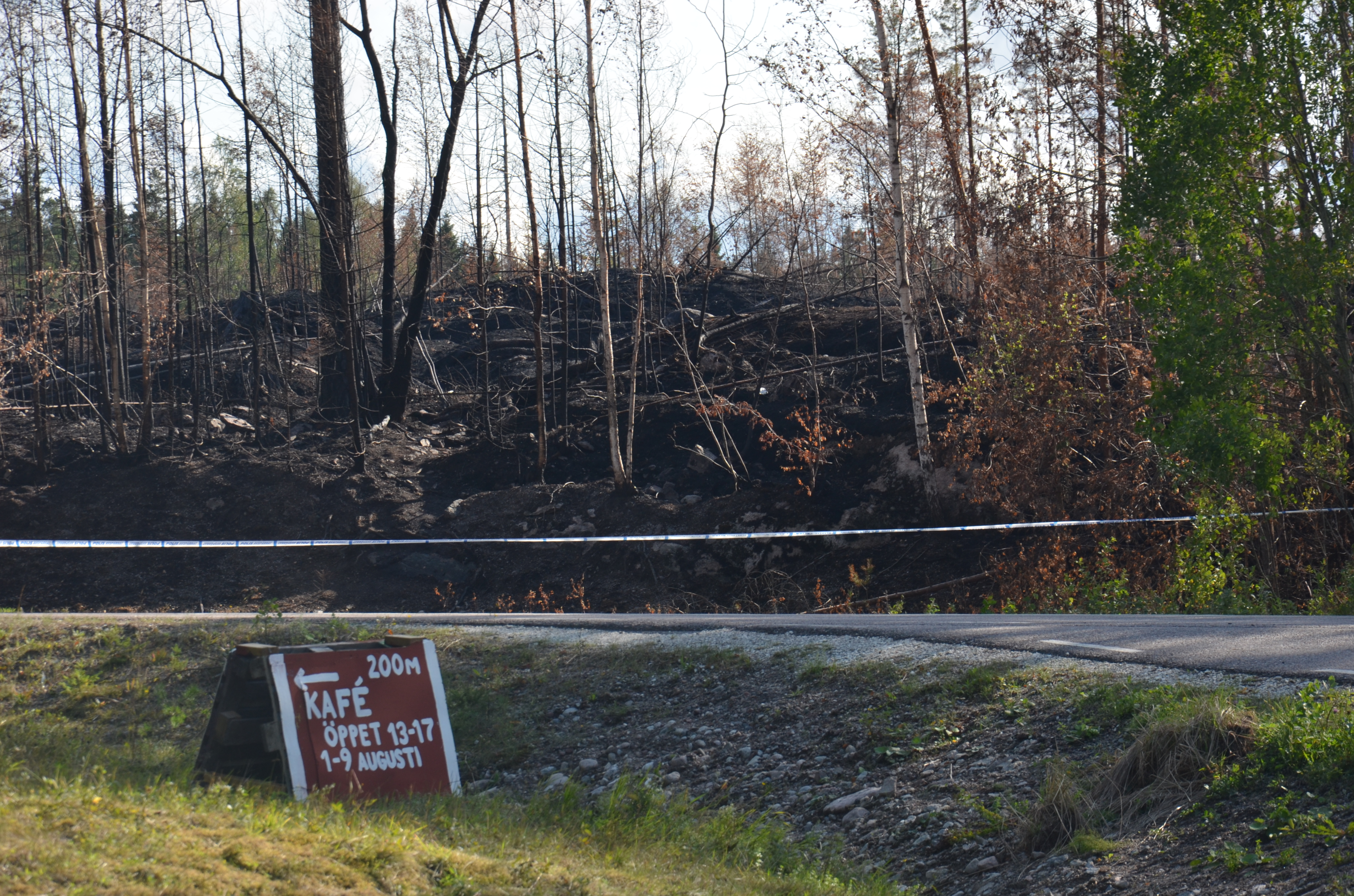 Skogsbrandfronten vid avtagsvägen till Karbennings kyrka, Norbergs kommun, från länsvägen Norberg-Sala, 22 augusti 2014